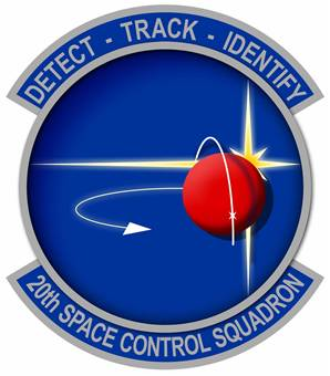 USAF Unit Emblem